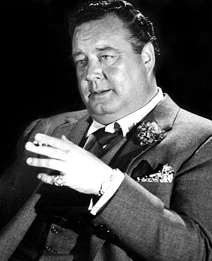 Publicity photo of Jackie Gleason in The Hustler.